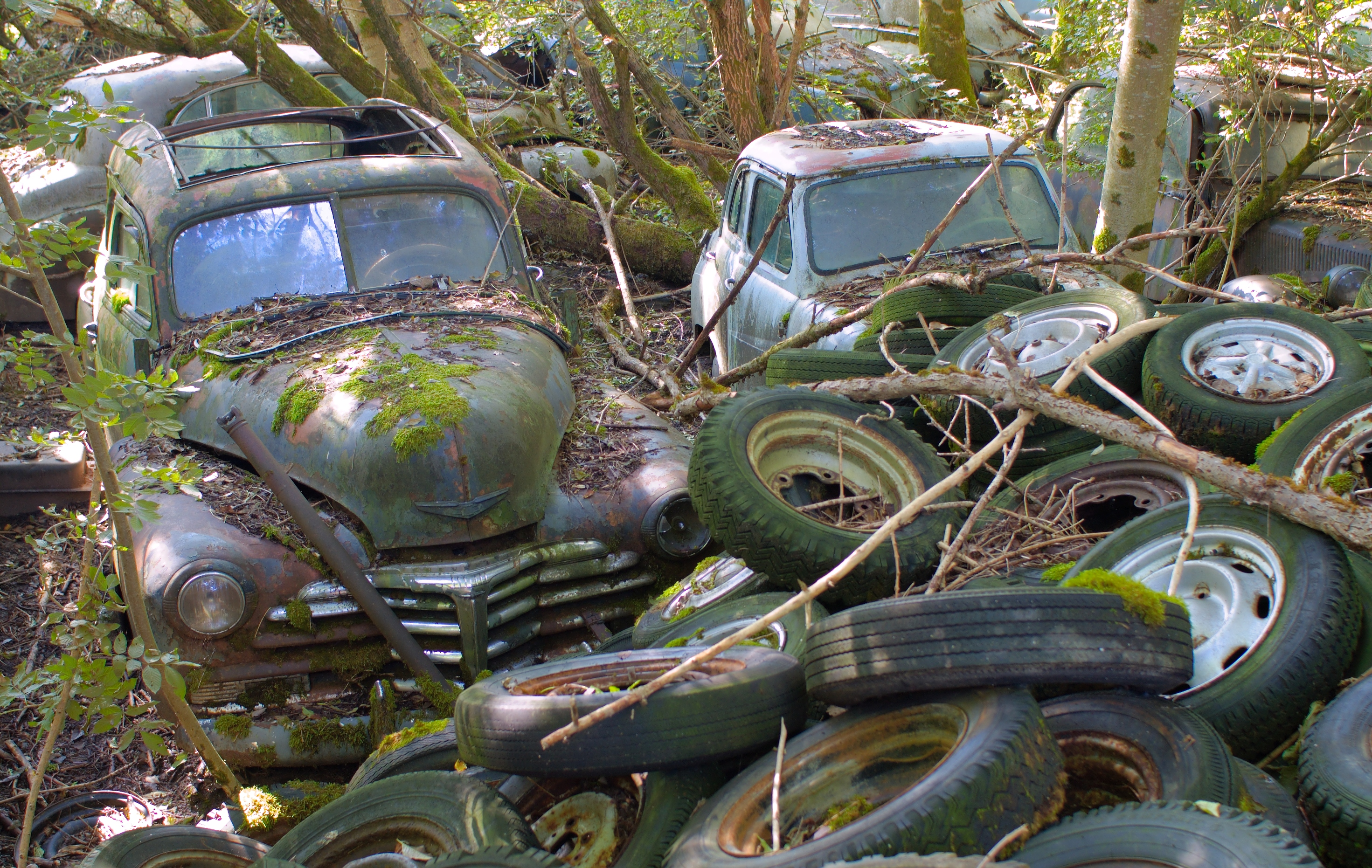 Historic car wreck on car cemetery in Kaufdorf, Switzerland